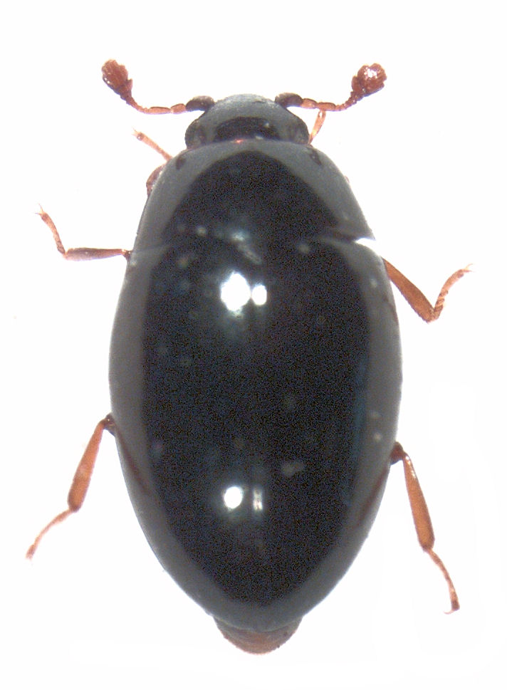 adult Hypodacnella rubripes